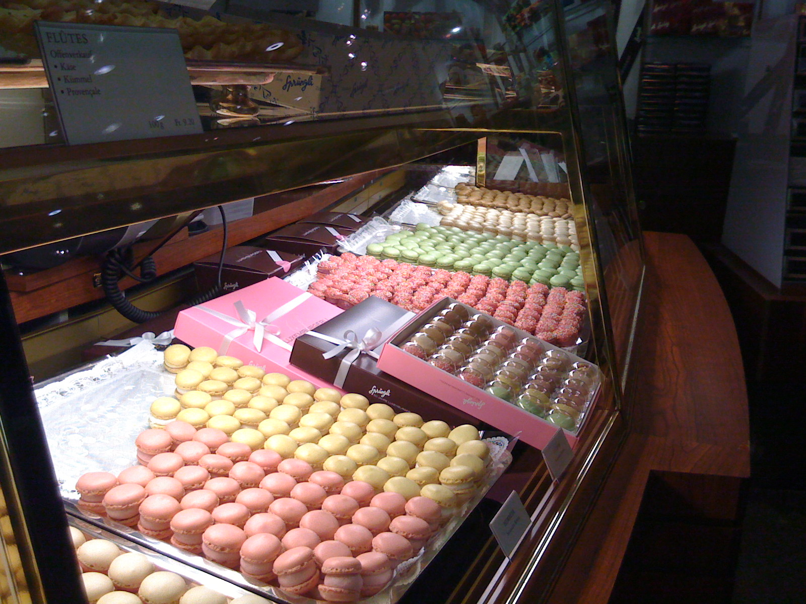 Display window filled various luxemburgerli flavors in a Sprungli candy shop in Zurich, Switzerland.